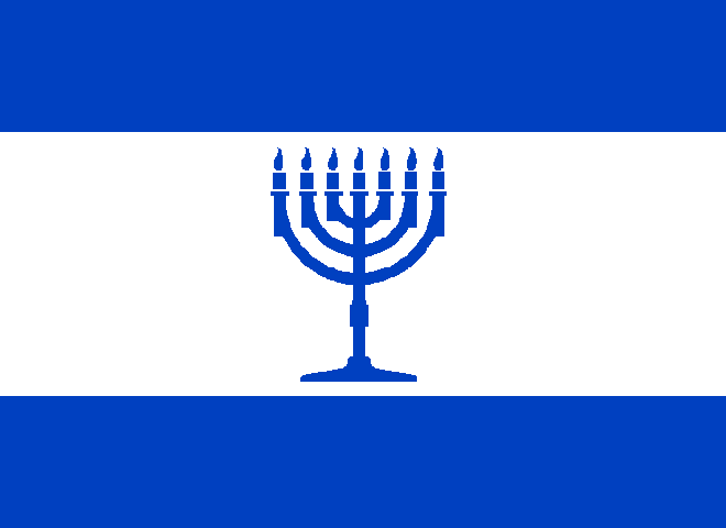 Flag of the State of Judea